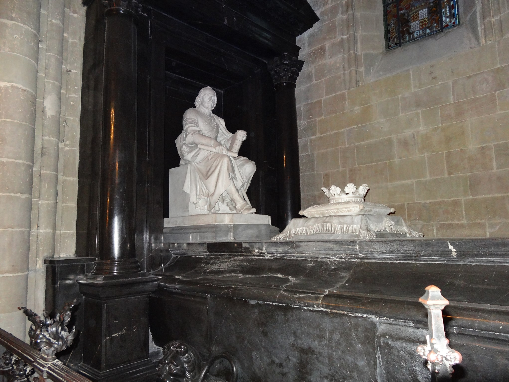 Geneva